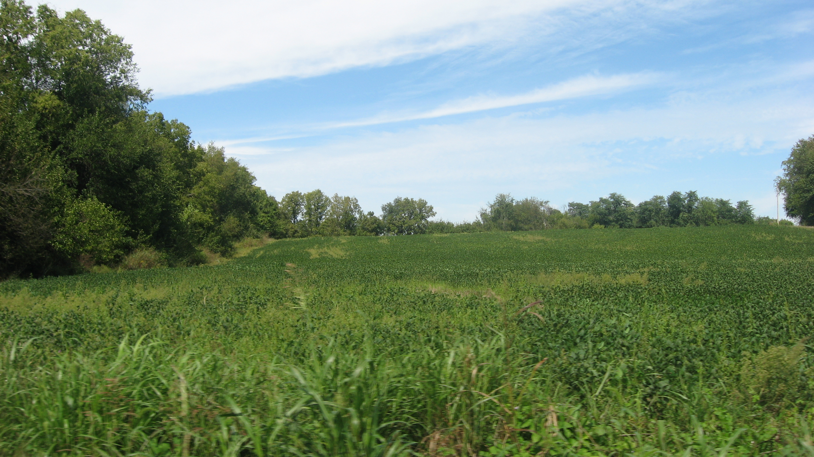 Overview of the Smith-Sutton Site, located at 2000 Utica-Sellersburg Road northeast of Jeffersonville in Utica Township, Clark County, Indiana, United States. Once a village of the Middle Mississippian culture, it is an important archaeological site, and it is listed on the National Register of Historic Places.